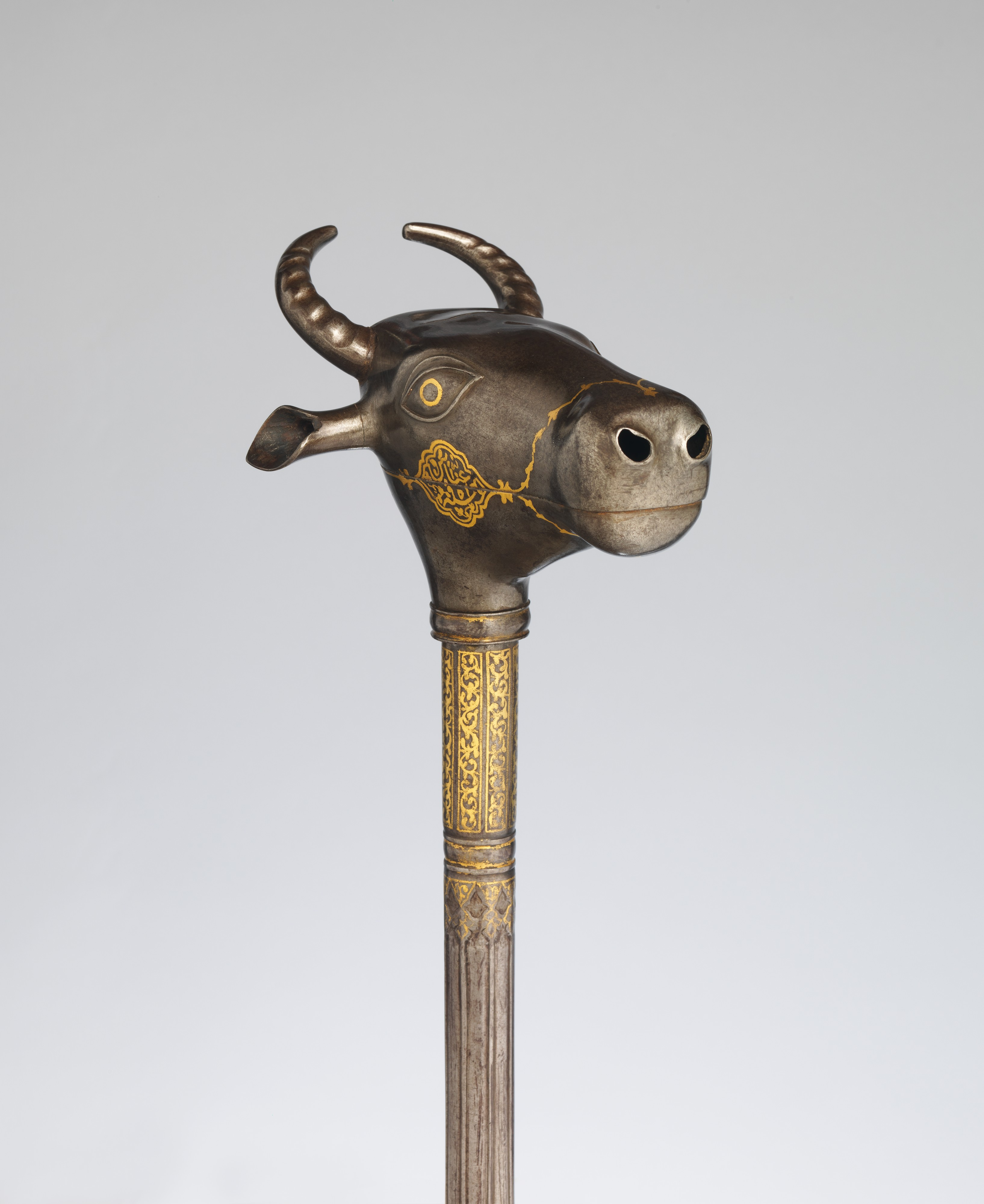 Iranian; Mace; Shafted Weapons